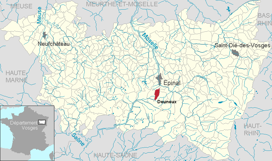 Dounoux in the department of Vosges, Lorraine, France